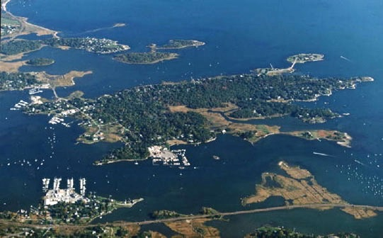 Temporary Plaster Monument